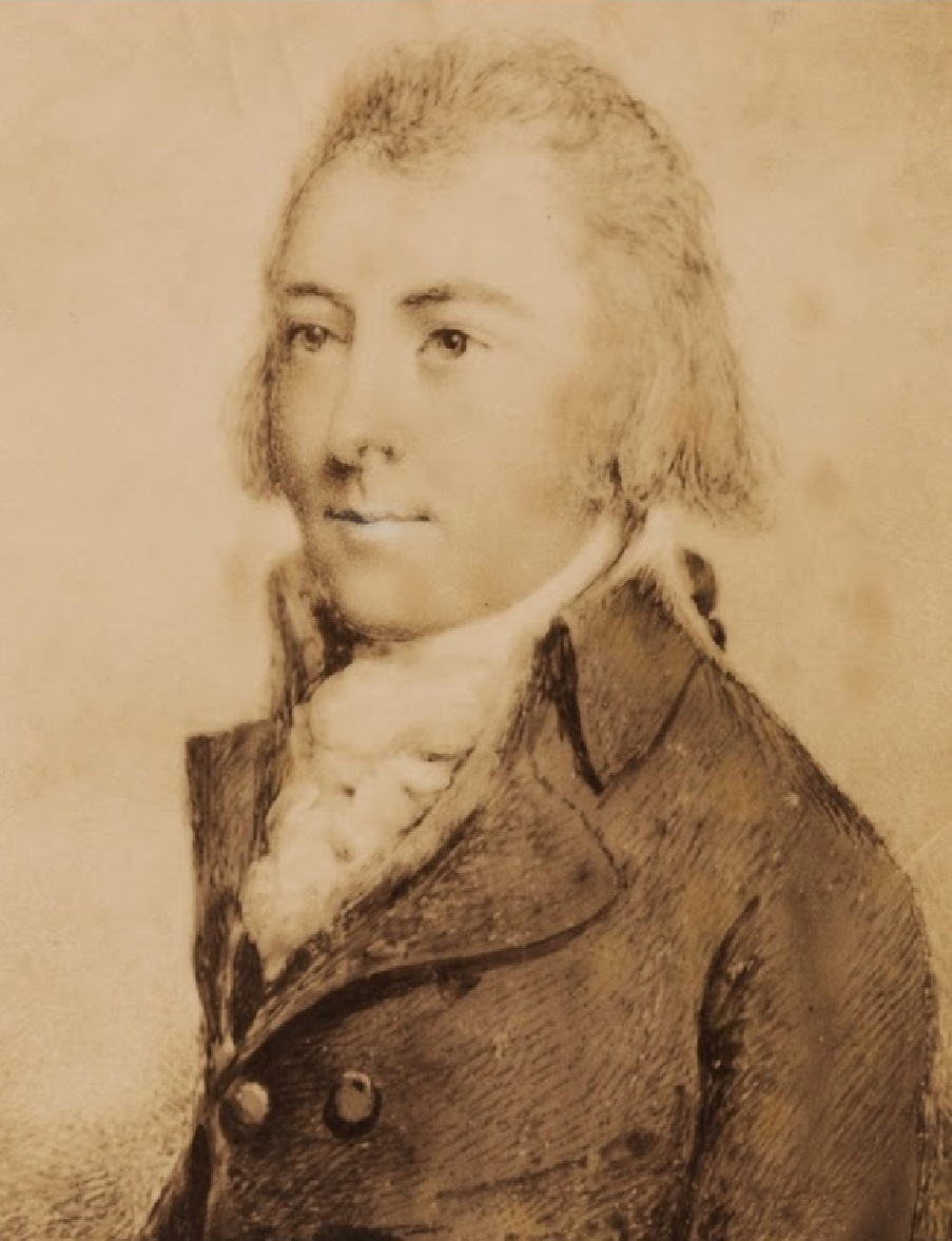 Miniature depicting Godfrey Higgins.